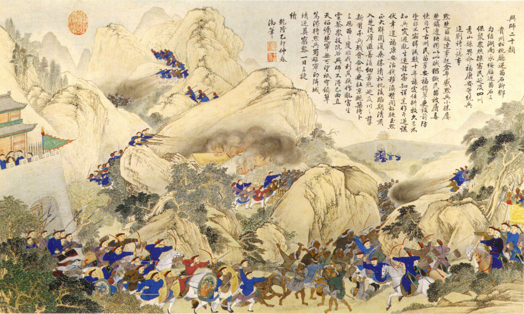 A scene of the Qing dynasty campaign against the Miao (Hunan) 1795